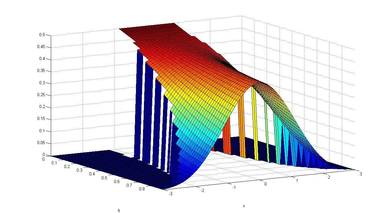 Gaussian q-density with q varying from 0 to 0.9.